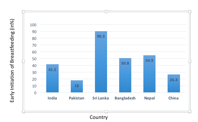 Early Initiation of breastfeeding in Asia. Source: 2018 Global Breastfeeding Scorecard